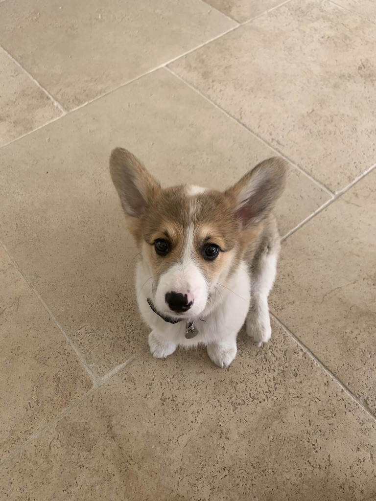 Pembroke Welsh Corgie Puppy around 3 months old